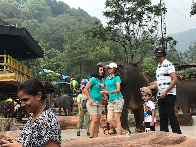 Taman Safari Elephant Show